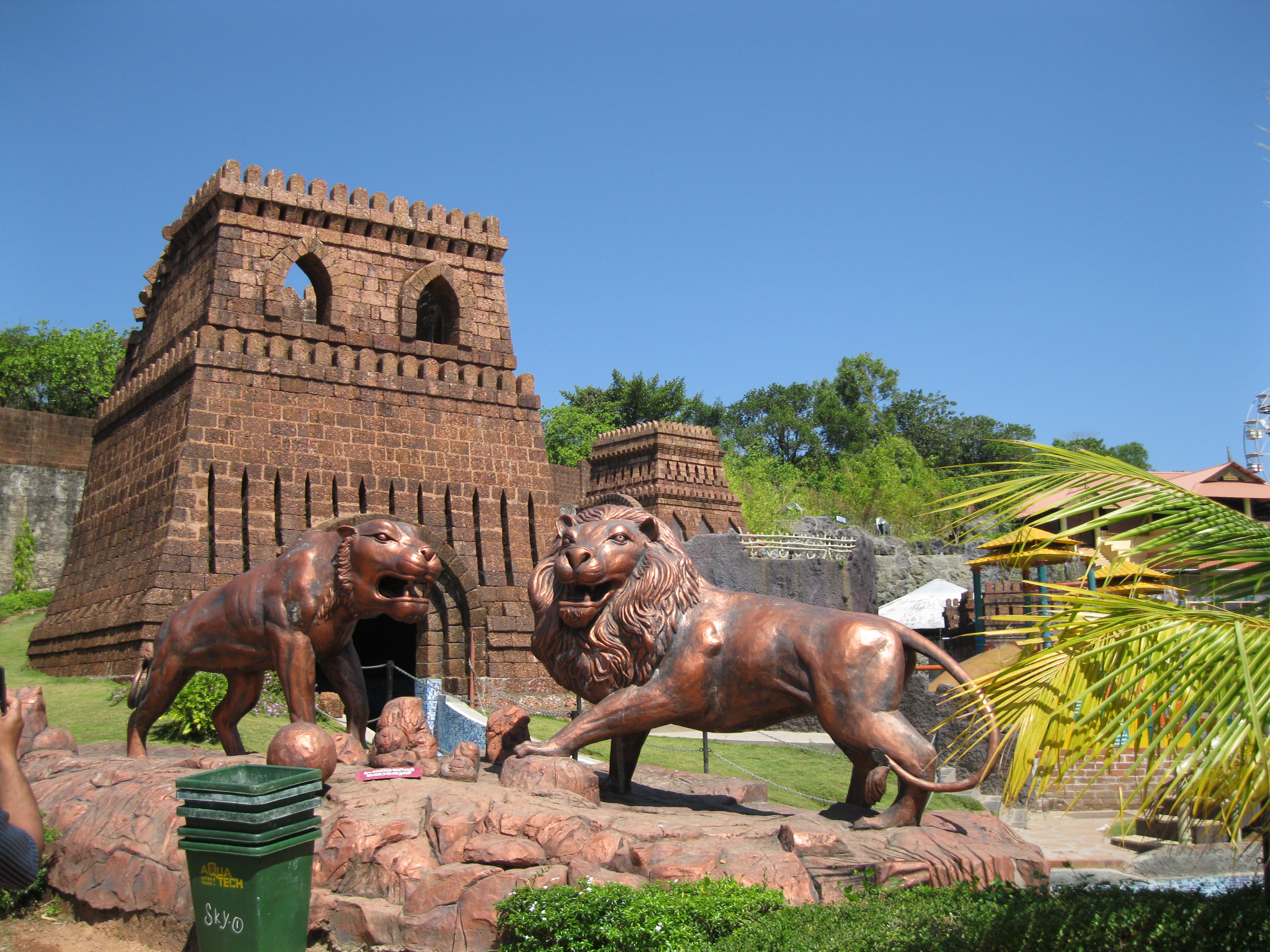 vismaya amusement park ,Kannur,Kerala